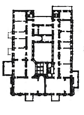 Floorplan of second floor of Debur's palace